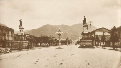 Early 20th century